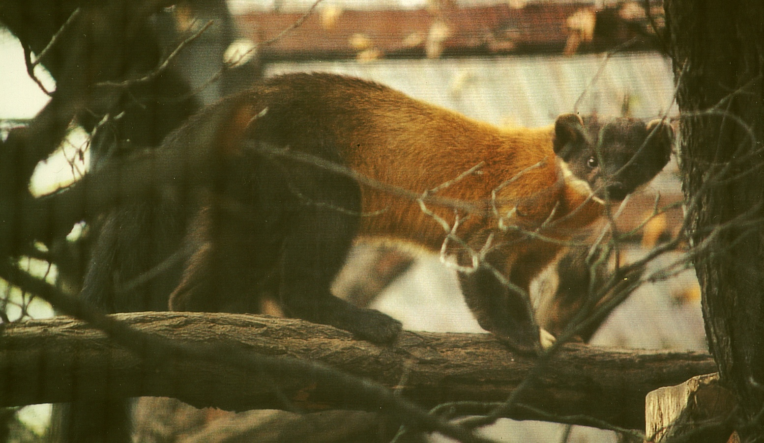 Yellow throated marten (Martes flavigula) in Zoo Dresden